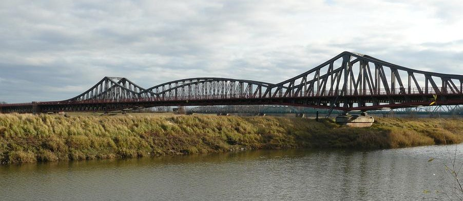 Odra-Bridges in Scinawa - Lower Silesia.